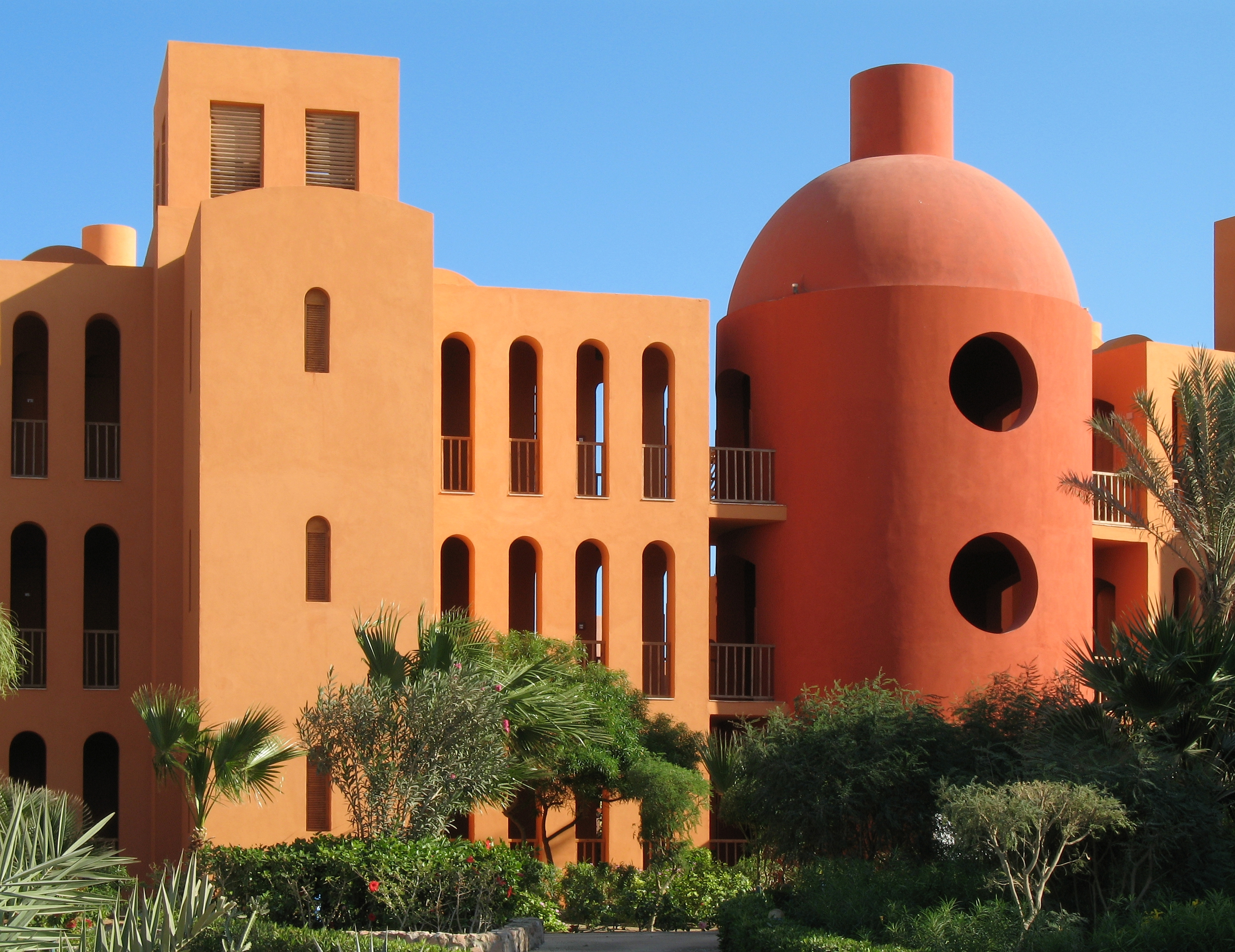 El Gouna (Red Sea, Egypt): Steigenberger Hotel (detail) - architects: Michael Graves & Associates and Ahmed Hamdy